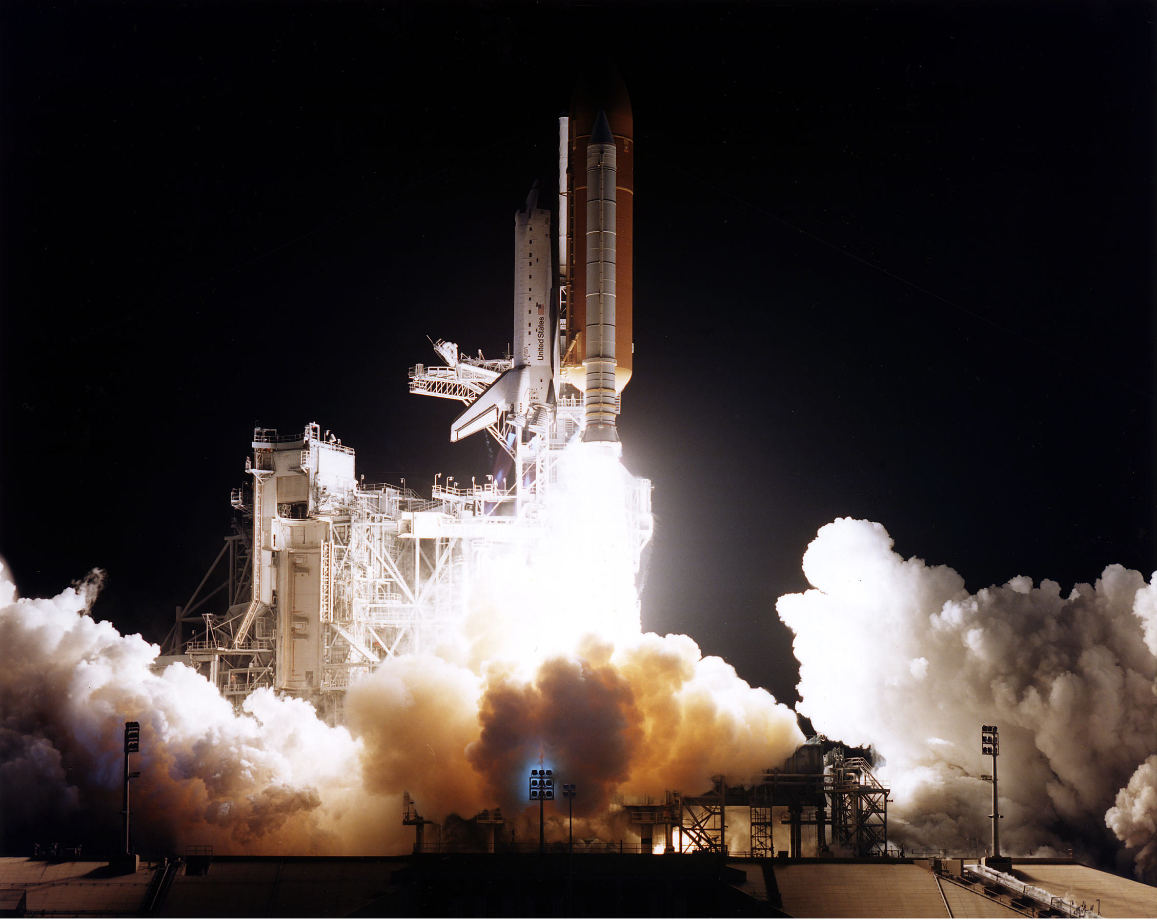 Kennedy Space Centre, Florida - Space Shuttle Atlantis launches at the beginning of the STS-81 mission to Space Station Mir.